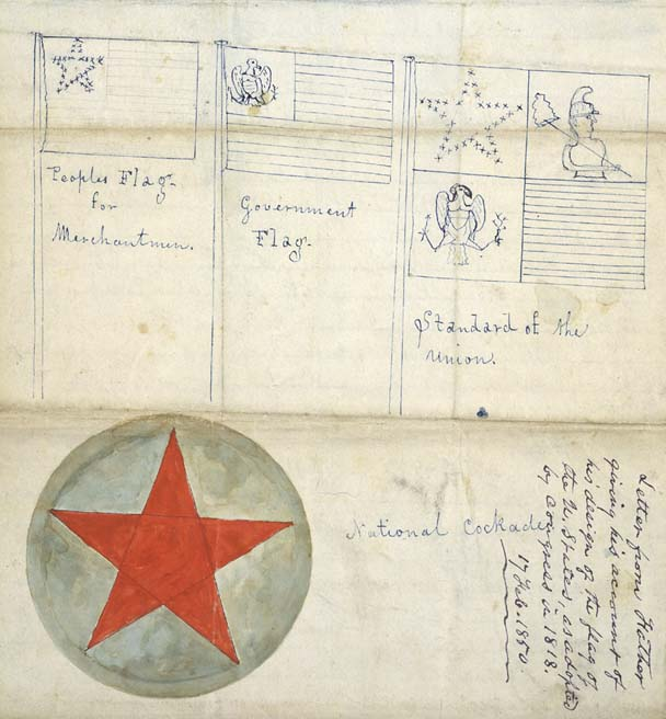 Sketches made by Samuel Chester Reid in 1850 in a letter to his son, showing his proposed designs for various U.S. flags when he was a central part of Congressional discussions in 1817. Reid came up with the concept of having 13 stripes while adding stars to represent the states, which was the definition chosen for the Flag Act of 1818, which is still in force today. Reid recommended arranging the stars in a larger star, which in fact was used in the first flag flown over the Capitol following the 1818 law, but shortly thereafter horizontal rows became customary. Reid actually proposed three flags: the "people's flag", a governmental flag with the stars replaced by the coat of arms (so to better distinguish merchant from government ships), and a "national standard" to be used on ceremonial occasions such as inaugurations. This last flag was reminiscent of the British royal standard, and had four quarters, one with the stars on a blue background, another with the coat of arms on a white background, another with the Goddess of Liberty on a white background, and the last with the 13 red and white stripes. Other accounts of the Congressional committee letters show the eagle and goddess quarters switched from this sketch; perhaps they were changed in discussions before being dropped altogether. Reid also proposed a national cockade, a symbol worn on military uniforms. None of Reid's additional suggestions were adopted, nor were they seriously considered. Text: "Peoples flag for Merchantmen", "Government flag", "Standard of the unions", "National cockade", "Letter from Father giving his account of his design of the flag of the U. States, as adopted by Congress in 1818. 17 Feb. 1850"